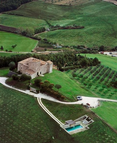 todicastle panoramic view